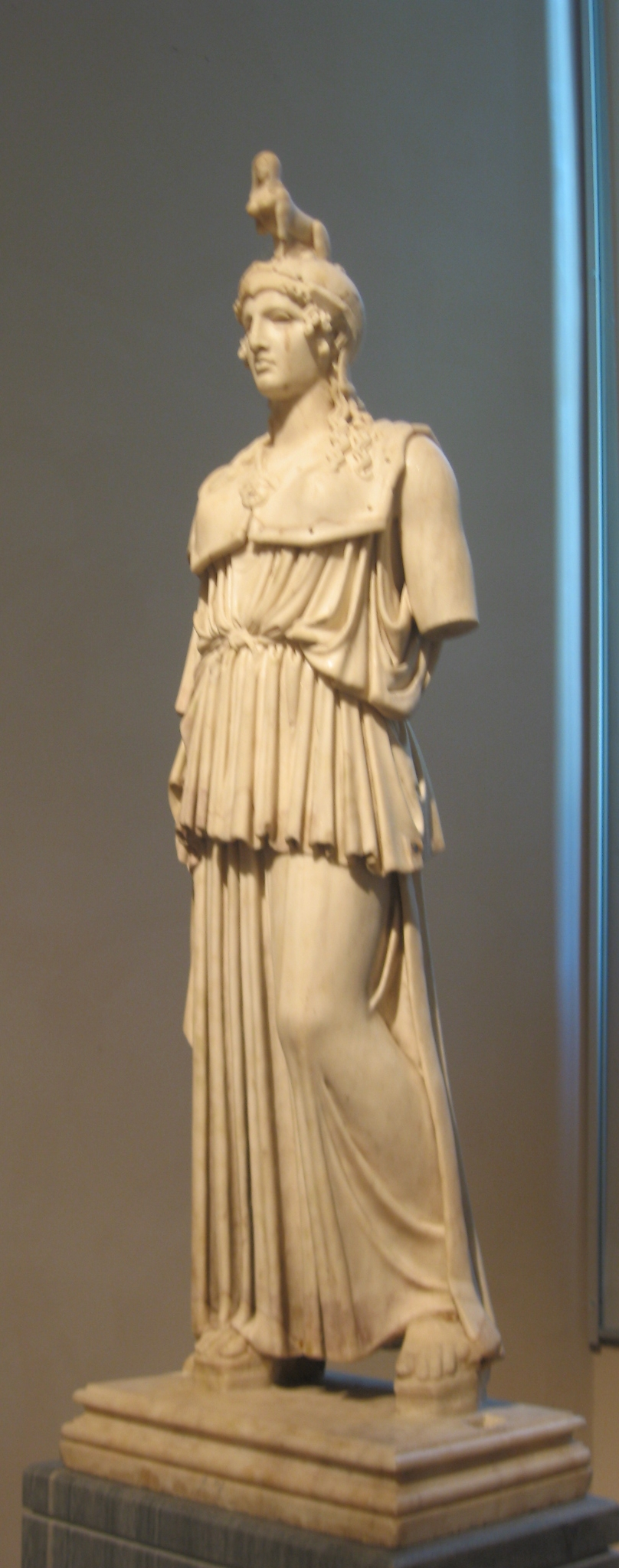 Athena Parthenos. Roman artwork sculpted in marble between 130 and 150 AD. It's a copy of a 11 metres-high Greek original of gold and ivory, sculpted by Phidias for the Parthenon (Athens) between 447 and 438 BC. The helmet crest is the result of a 17th-century restoration.